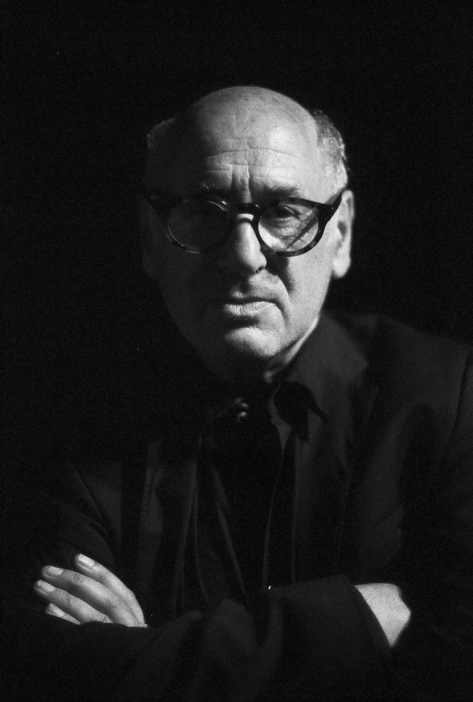 Composer Michael Nyman at Odessa International Film Festival in July 2015